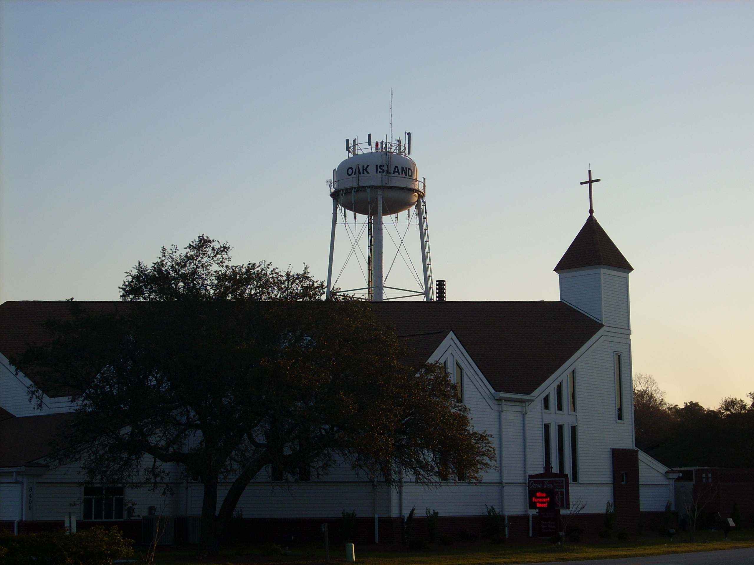 Water tower at Oak Island Beach, North Carolina